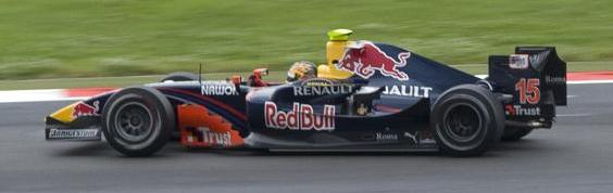 Yelmer Buurman driving for Arden International at the Circuit de Nevers Magny-Cours round of the 2008 GP2 Series season.